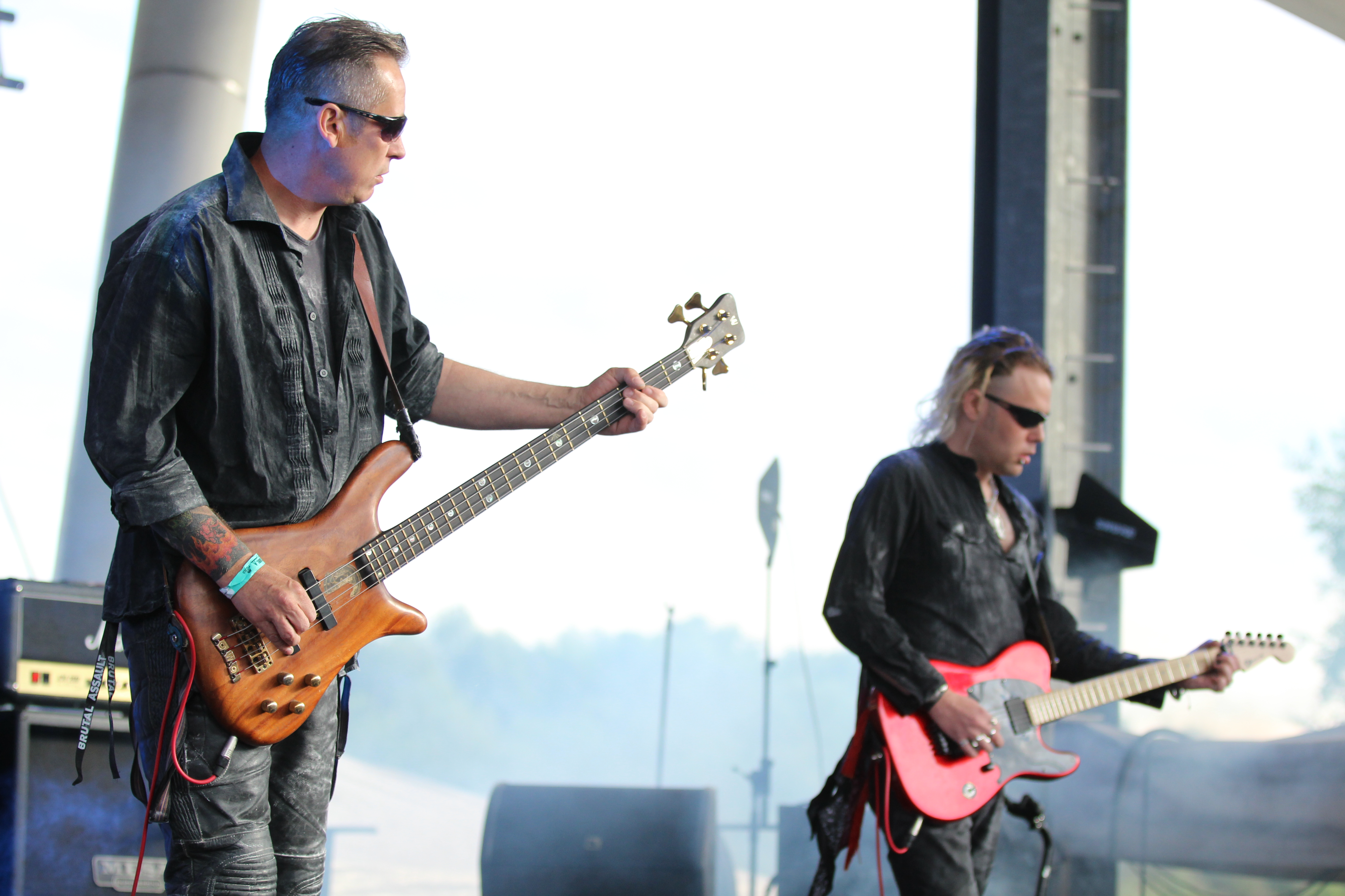 The English gothic rock band Fields of the Nephilim at the Blackfield festival 2014 in Gelsenkirchen